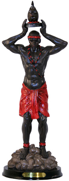 It's a saint in the religion of santeria